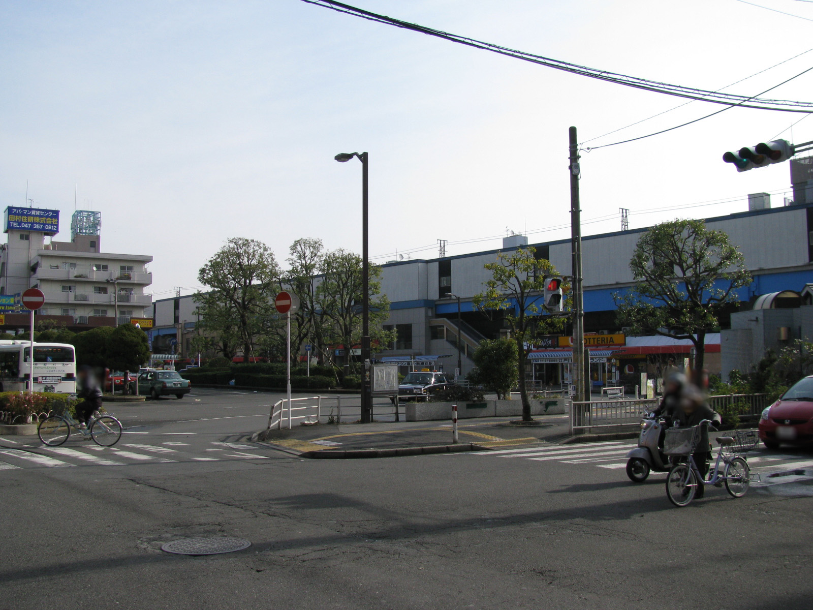 Station Building of Minami-gyotoku Station on Tokyo Metro Tozai-Line